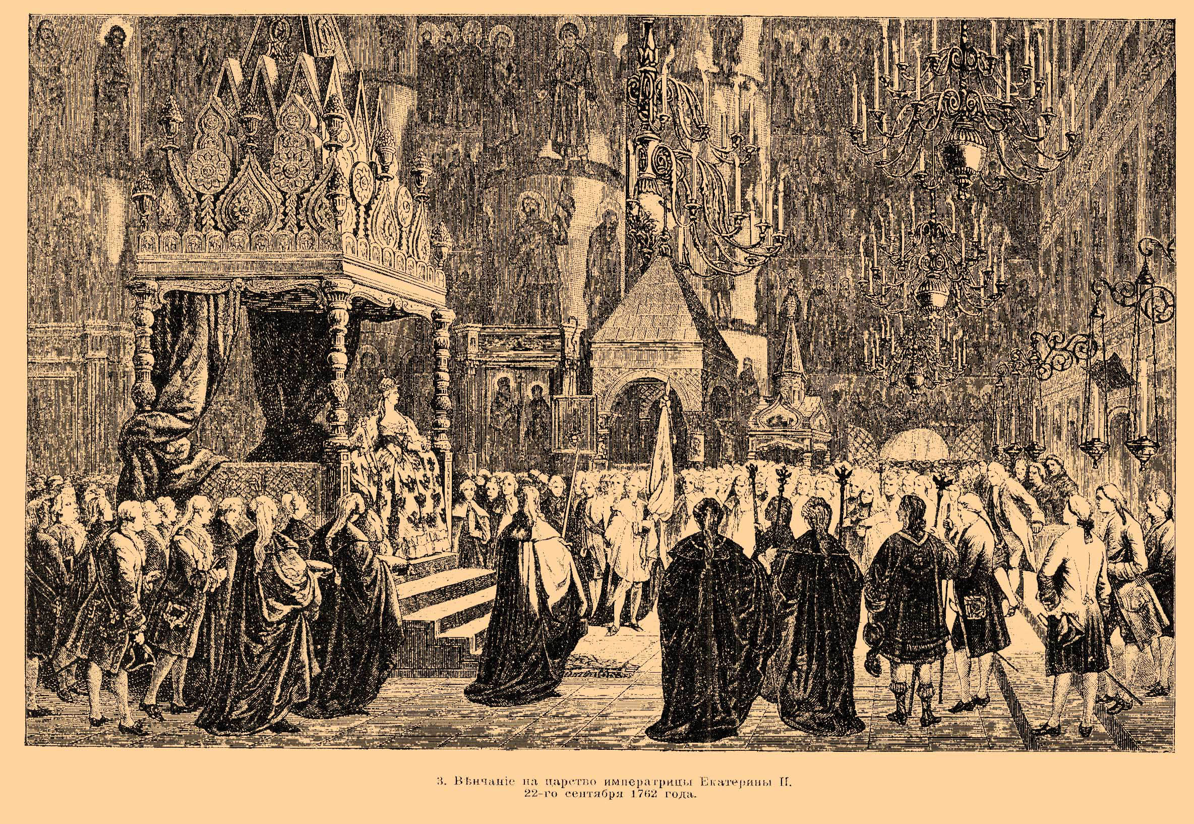 Illustration from Brockhaus and Efron Encyclopedic Dictionary (1890—1907)